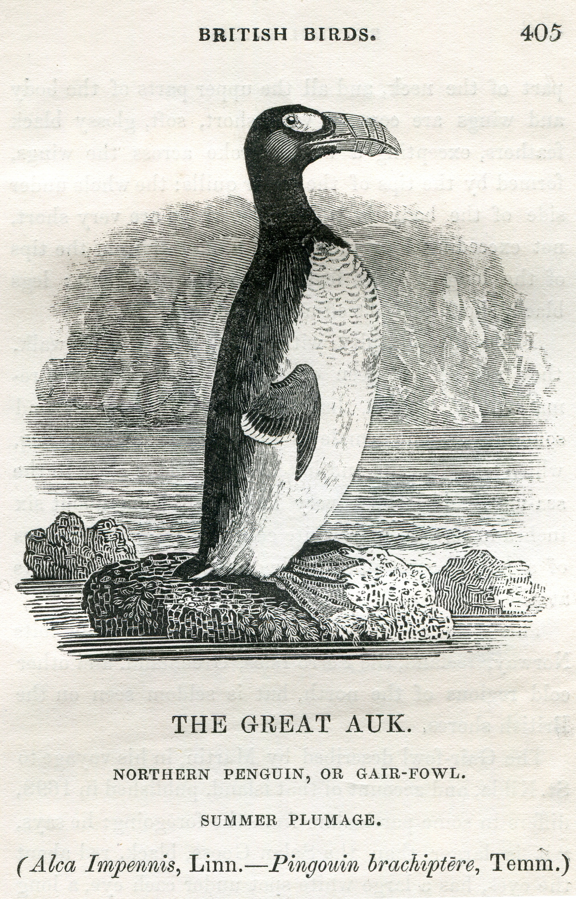 Wood engraving of Great Auk by Thomas Bewick in A History of British Birds, Volume 2, Water Birds, 1804.